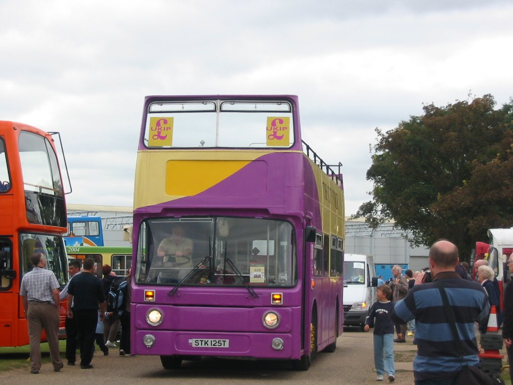 A bus adorned in the colours of the United Kingdom Independence Party (UKIP)